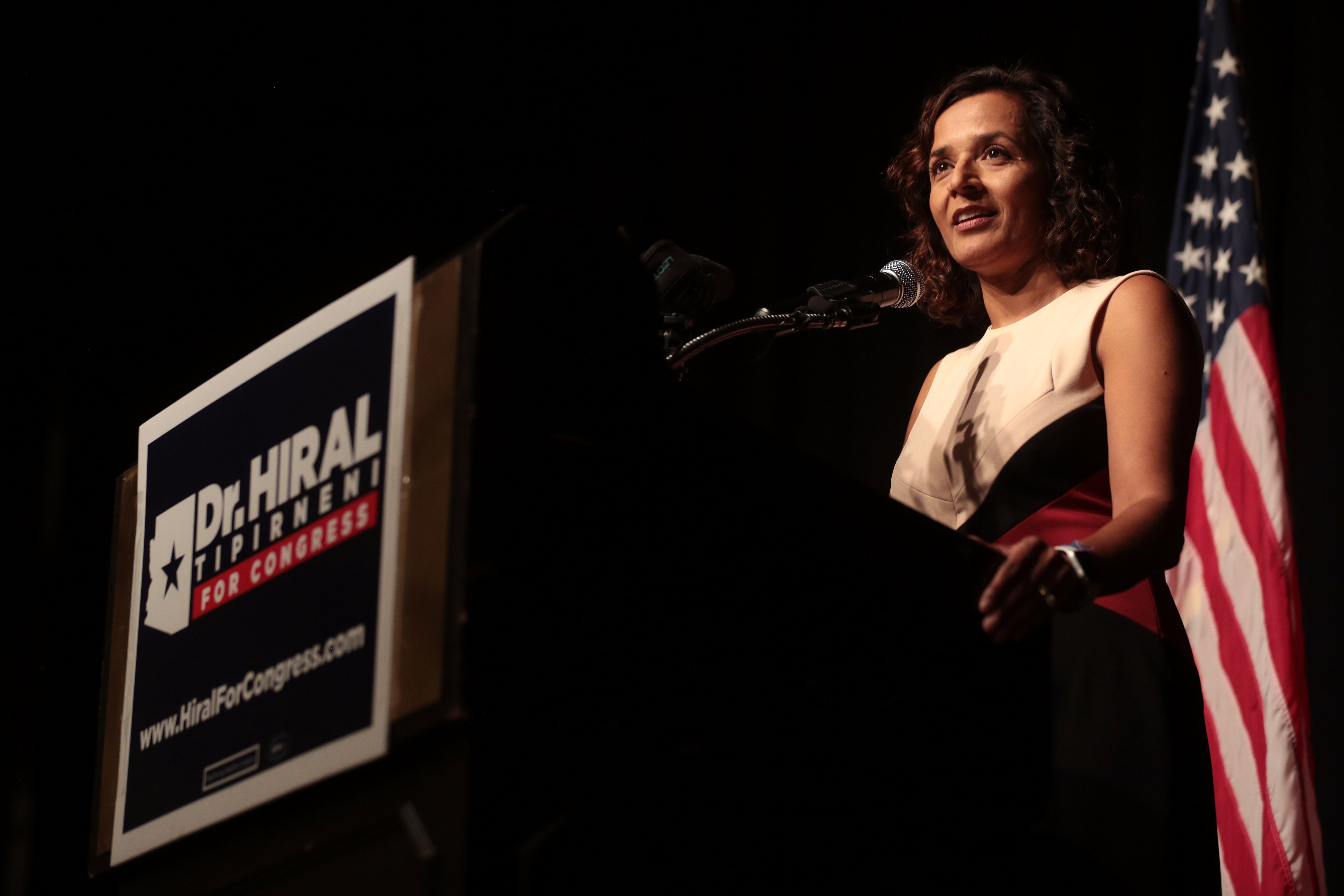 Hiral Tipirneni speaking with supporters at a campaign rally for her U.S. Congressional campaign with former U.S. Congresswoman Gabrielle Giffords and Mark Kelly at the Sun City Grand in Sun City, Arizona.